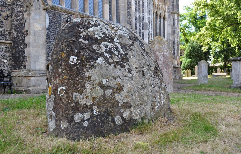 The Druids Stone - Glacial Erratic